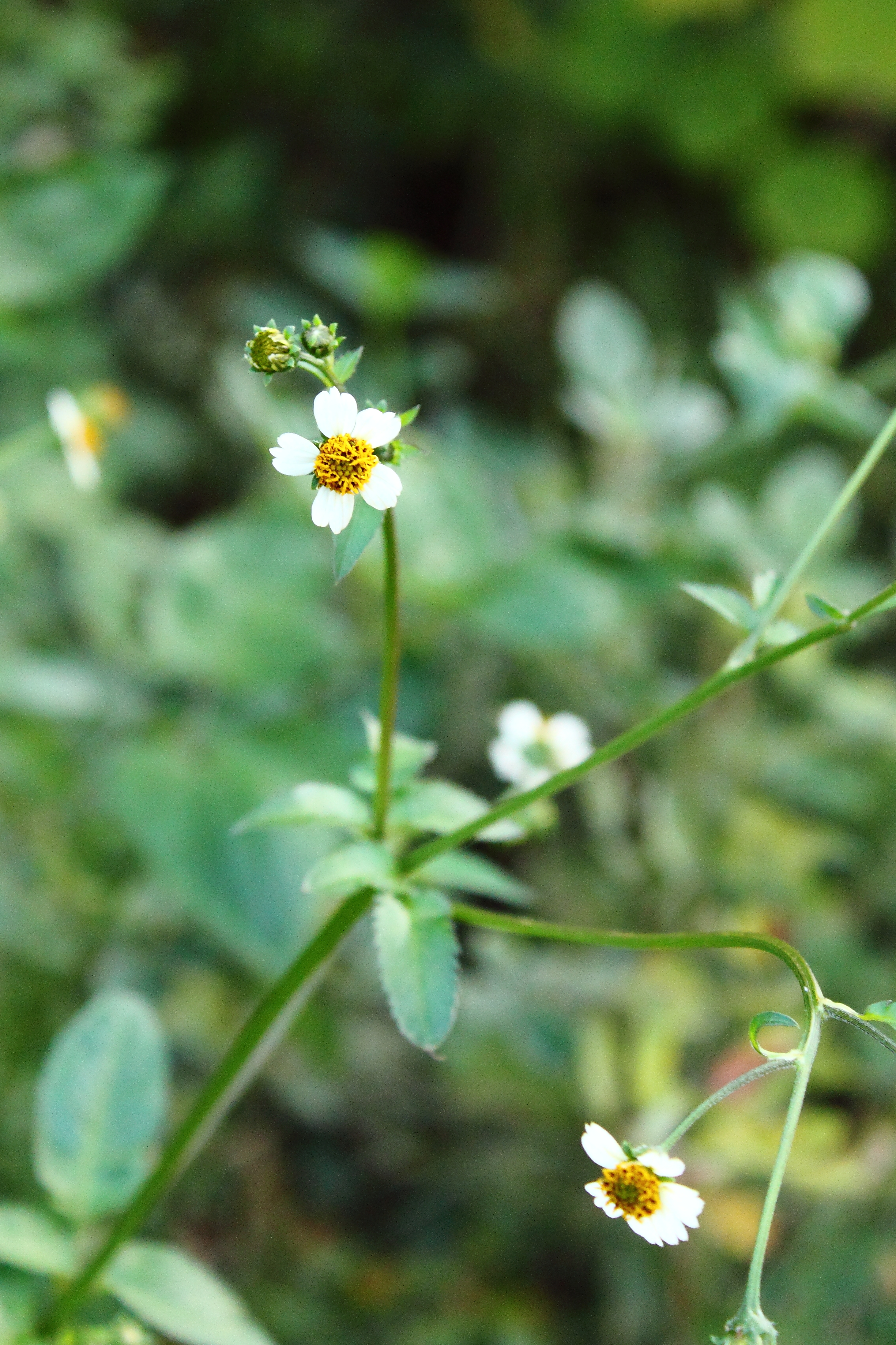 Flowers of Bidens pilosa